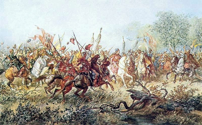 Meeting of Chmielnicki with Tuhaj Bej